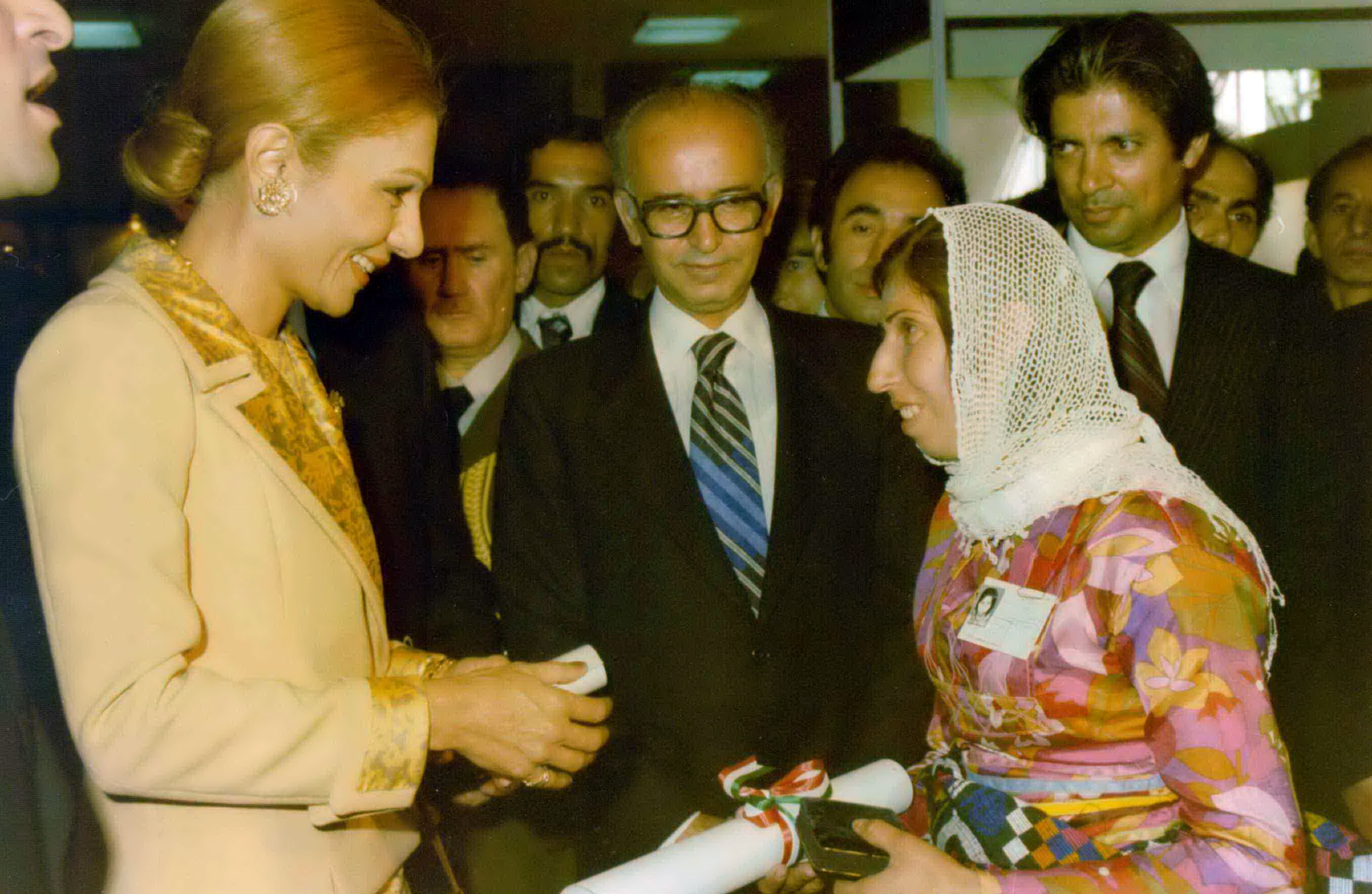 Farah Pahlavi in Isfahan